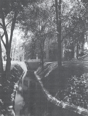 Phoenix Mill 1930s